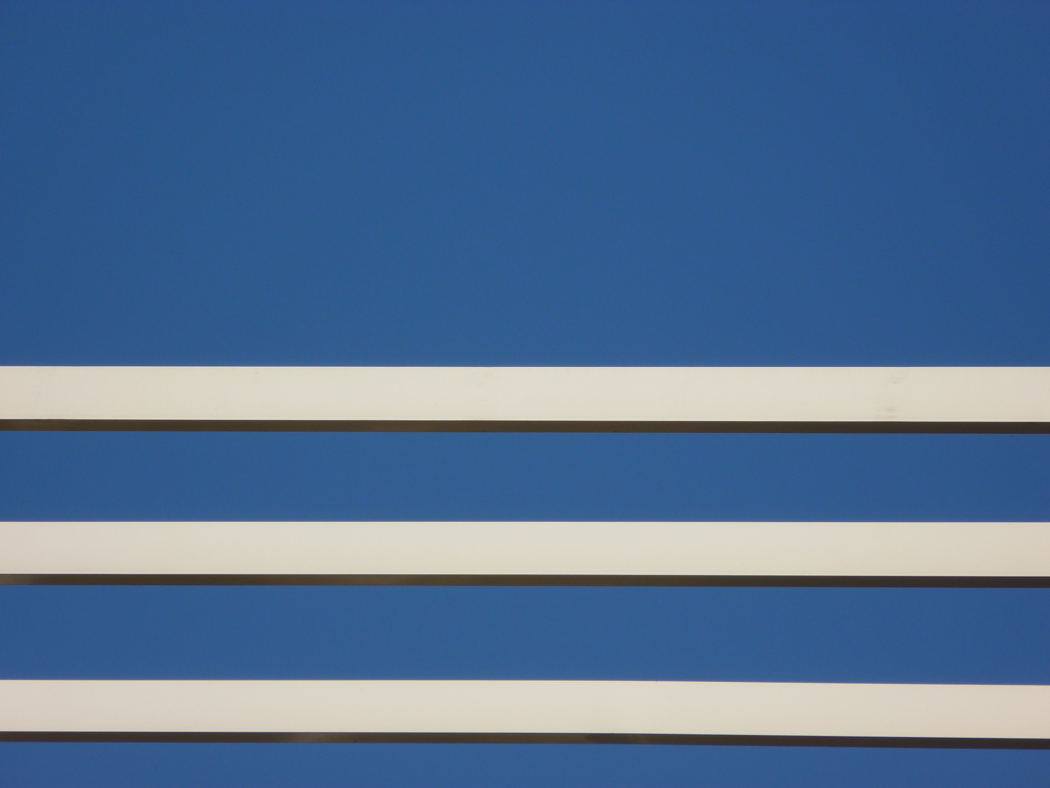 Abstract created by Pergola and Jerusalem Sky